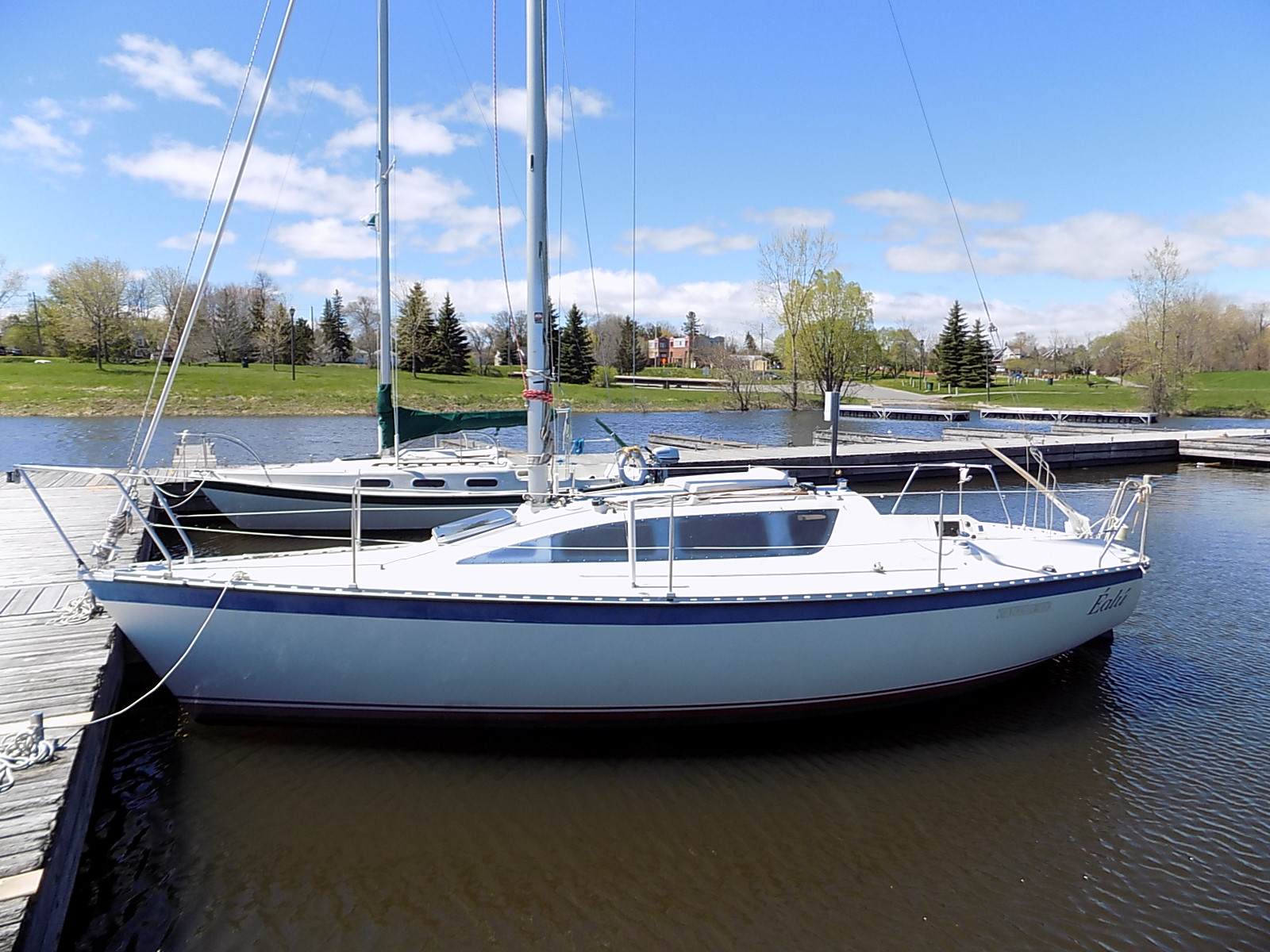 A Tanzer 25 sailboat